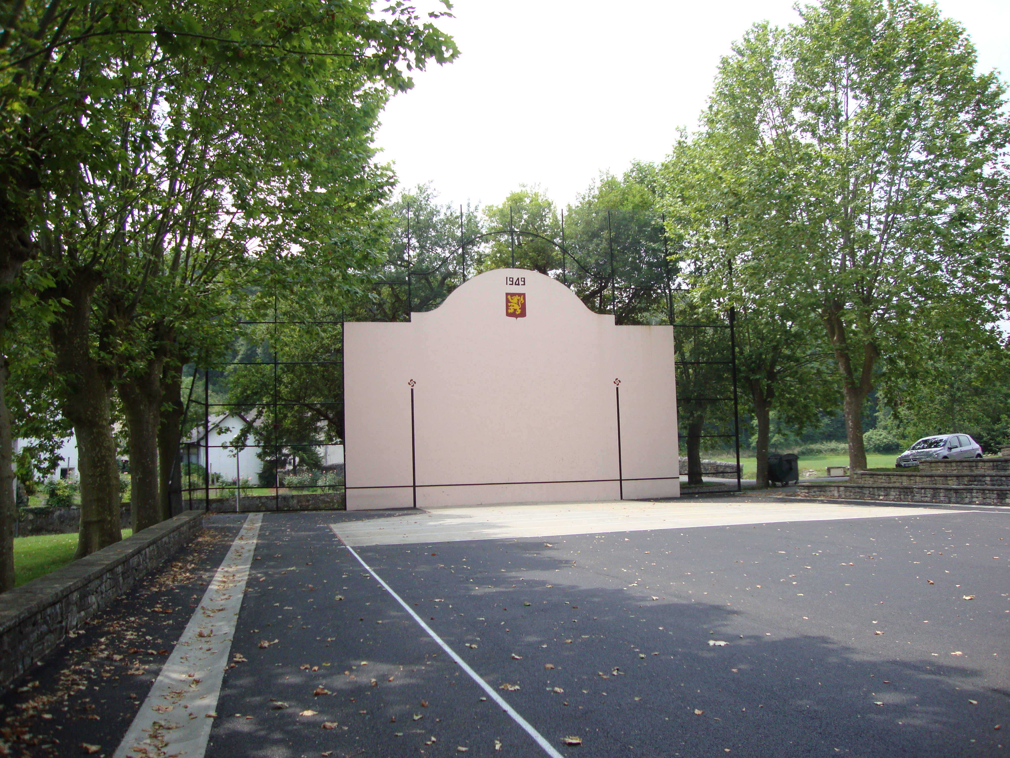 Ordiarp (Pyr-Atl, Fr) pelota court